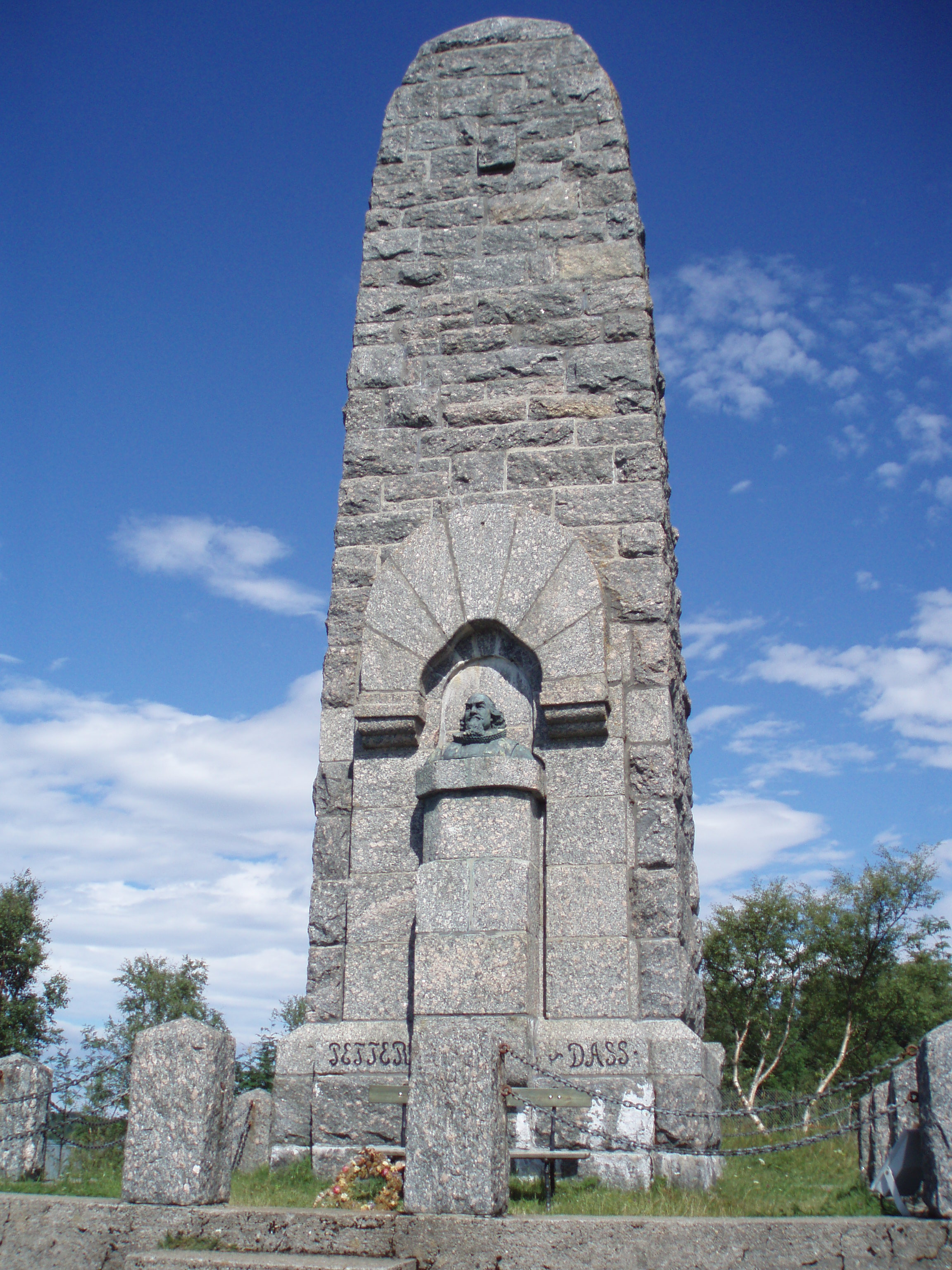 A monument (of Petter Dass) on the hill near the museum of Petter Dass, Alstahaug, Norway.